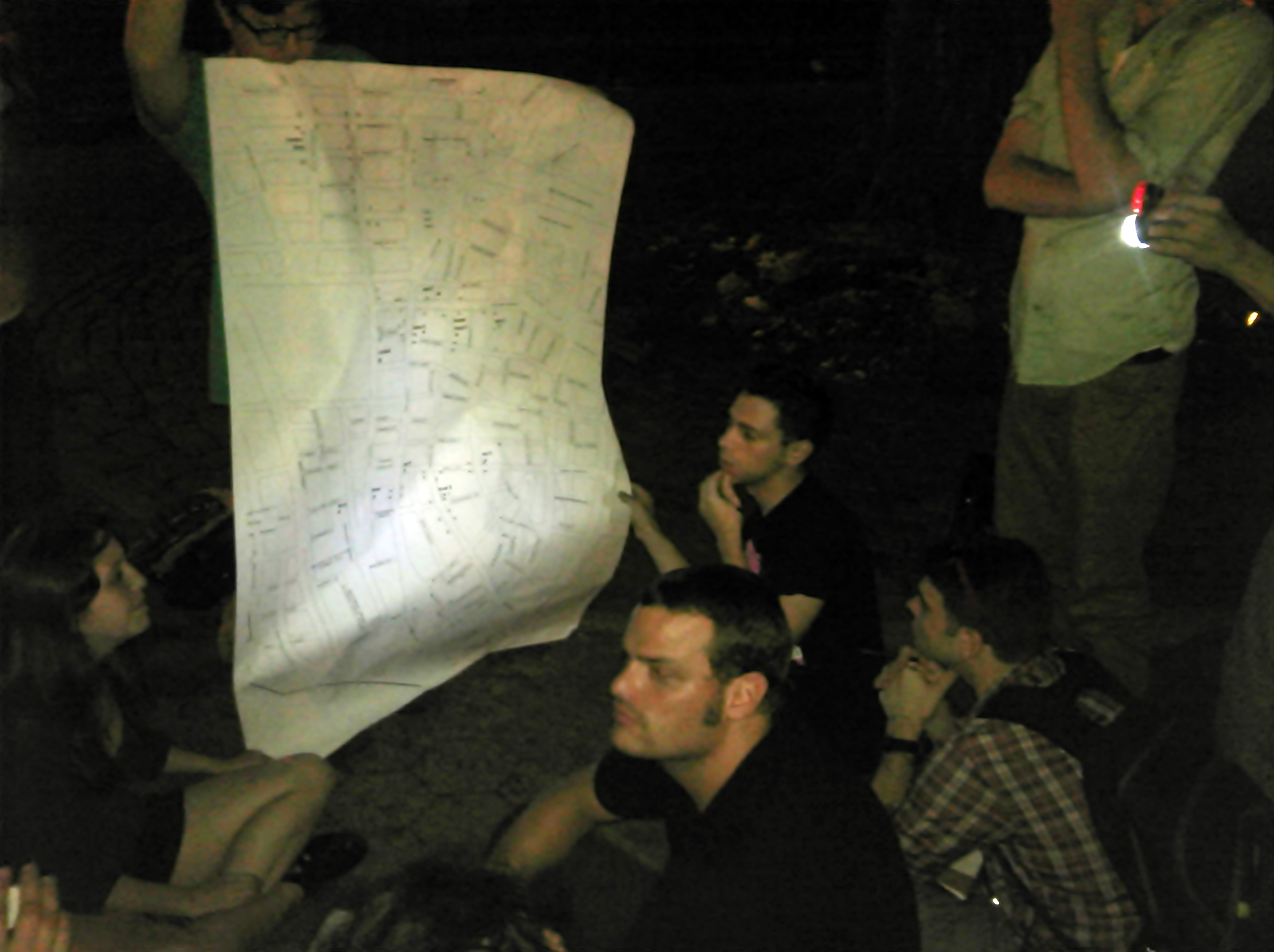 Occupy Wall Street general assembly meeting in Tompkins Square Park planning the September 17th strategy.